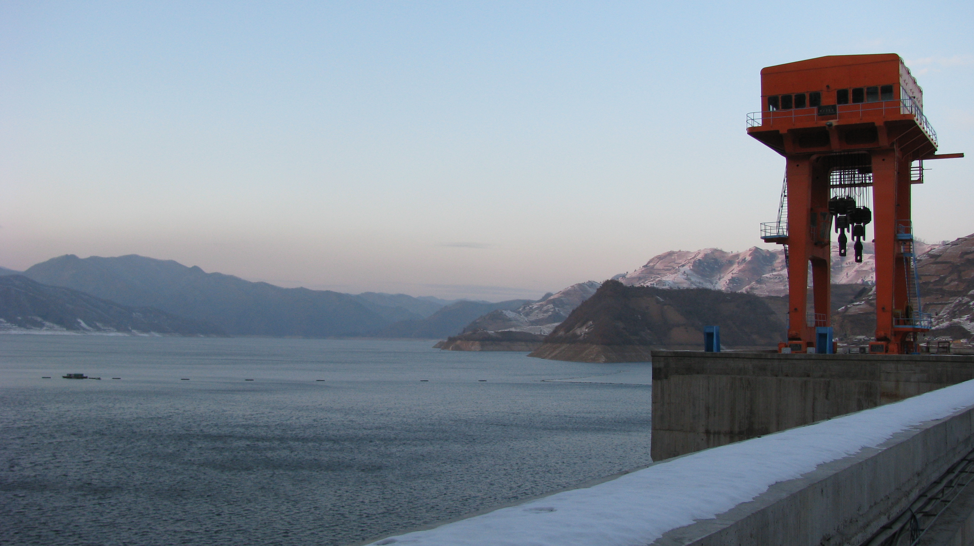 A view of the the Yunfeng Reservoir from atop the Yunfeng Dam on the Yalu River in Jilin, China/North Korea.